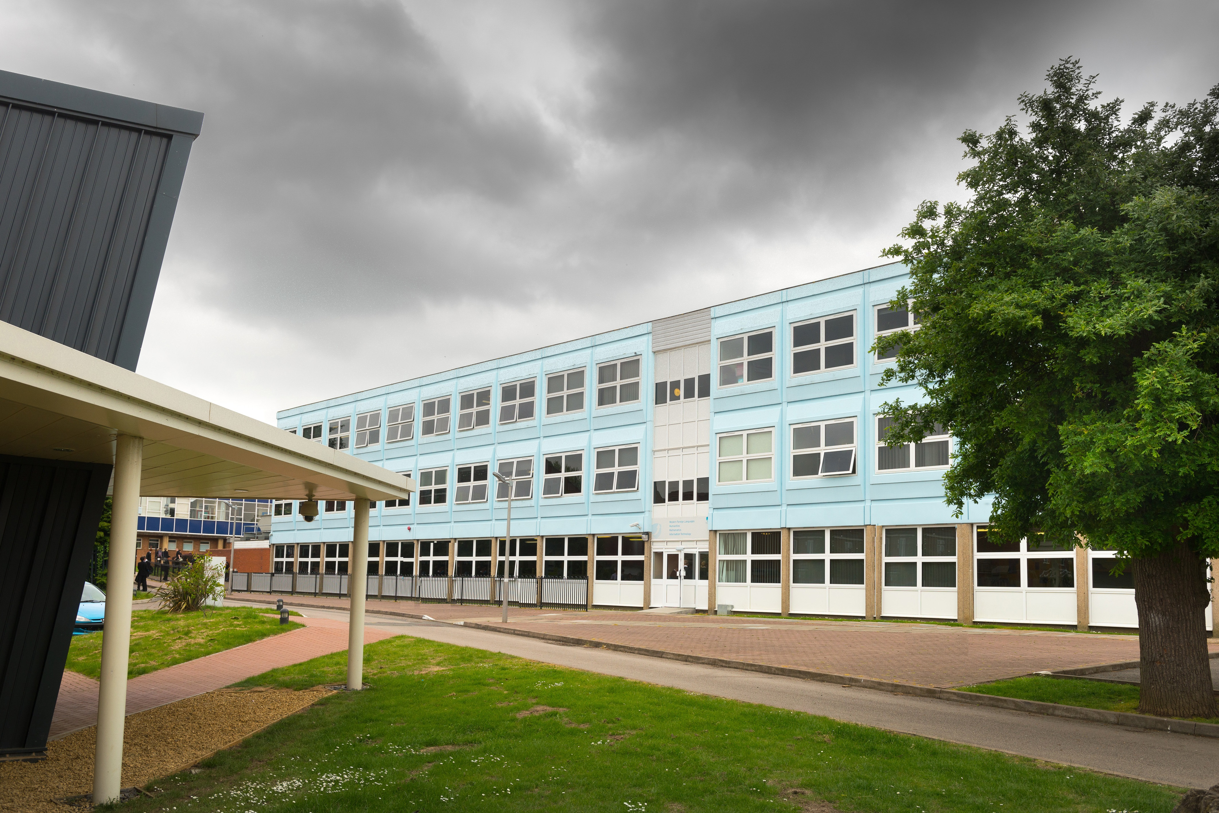 Rushden Community College, 2013